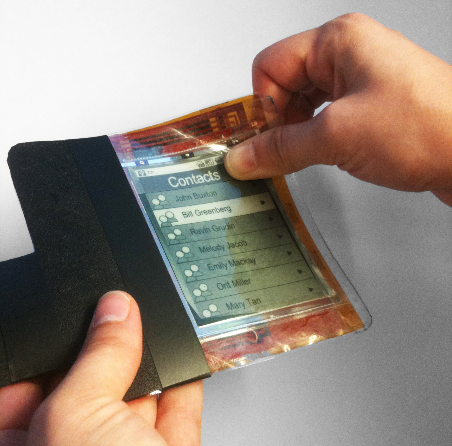 PaperPhone: A flexible, thinfilm smartphone that uses bend gestures for navigation. Example of a flexible Organic User Interface